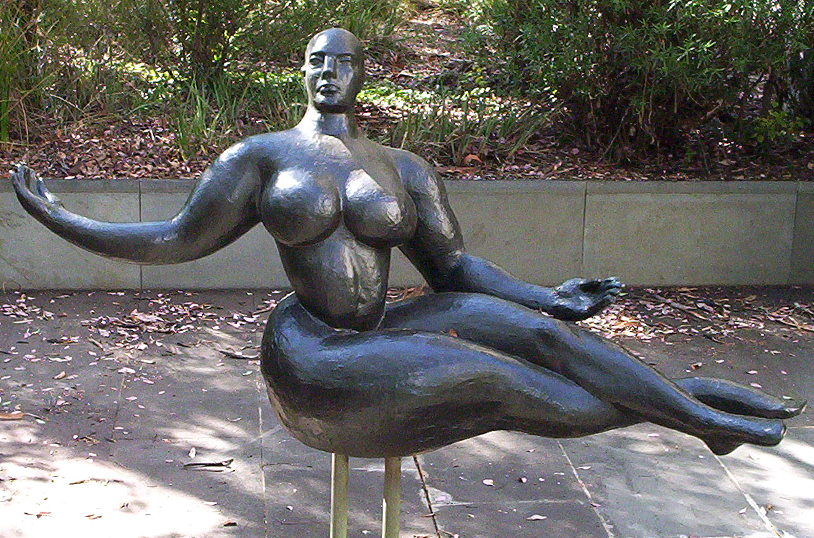 Gaston Lachaise's Floating Figure at the National Gallery of Australia, Canberra. I took the photo. Cfitzart 01:18, 25 August 2005 (UTC)